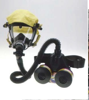 CBRN Powered Air-Purifying Respirator